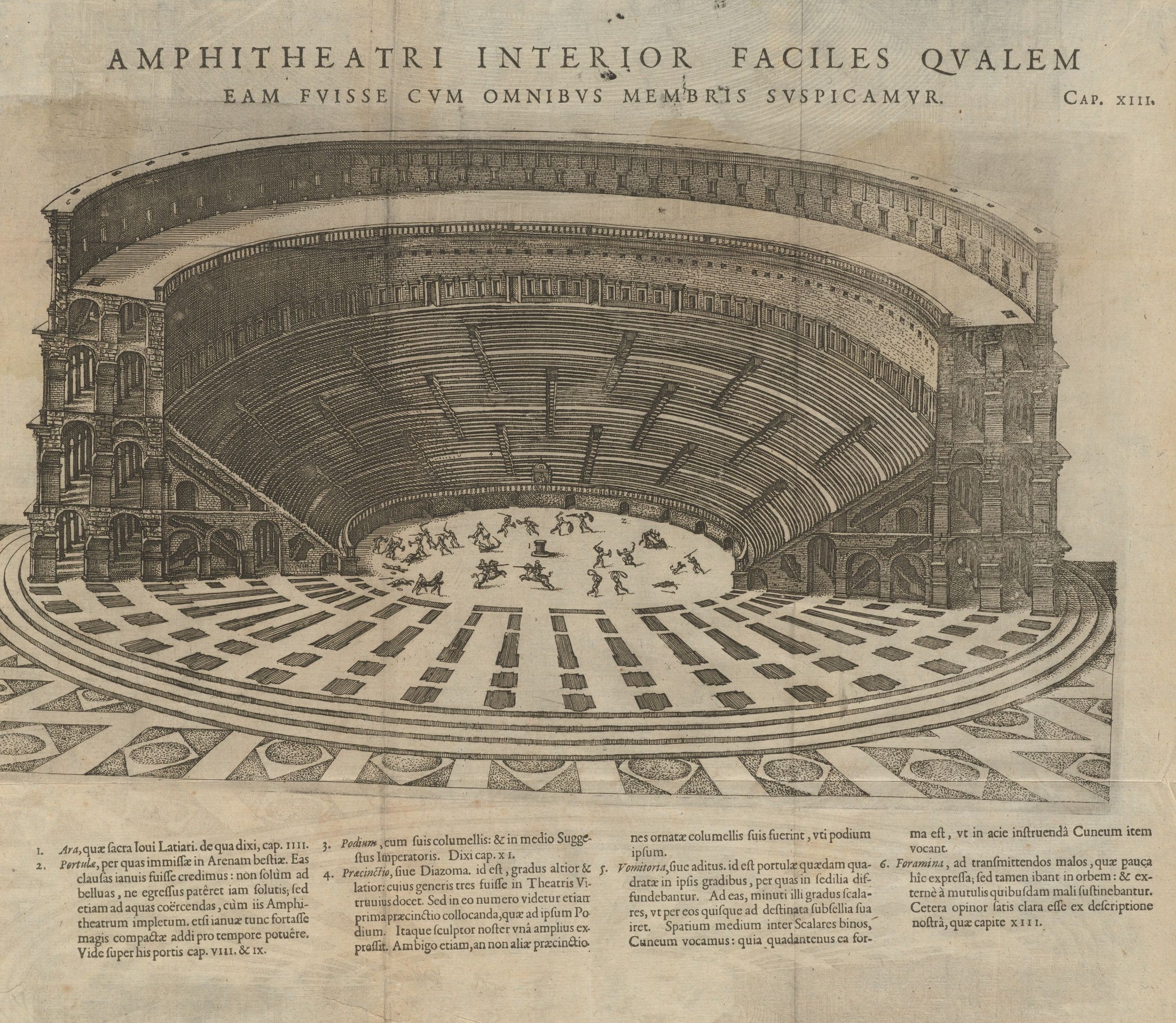 Illustration of "amphitheatri interior" from Ivsti LipsI Ad Iac. Monavivm epistola, 1592, by Justus Lipsius (1547-1606). *NC5 L6698 582se, Houghton Library, Harvard University